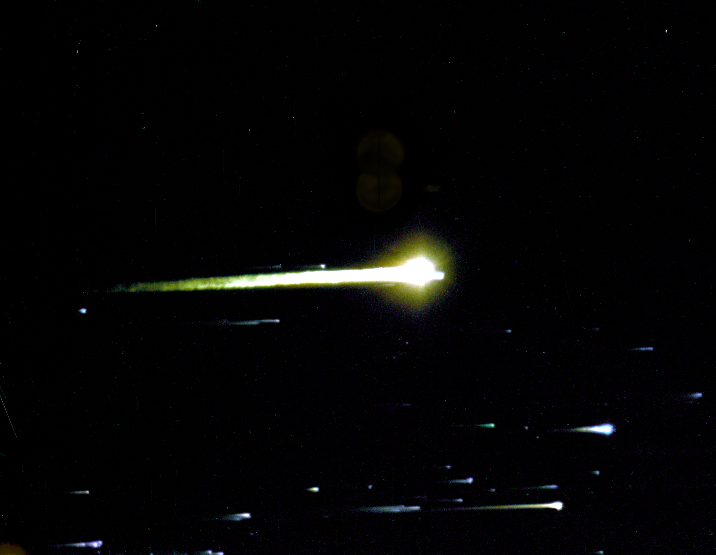 This Apollo 8 reentry photograph was taken by a U.S. Air Force ALOTS (Airborne Lightweight Optical Tracking System) camera mounted on a KC-135A aircraft flown at 40,000 ft altitude. Apollo 8 splashed down at 10:15 a.m., December 27, 1968, in the central Pacific approximately 1,000 miles South-Southwest of Hawaii.